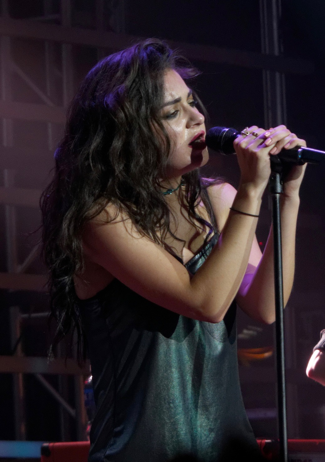 Charli XCX performing live at the VMAs "Artist to Watch" Concert at the Avalon Theatre in Hollywood California on Saturday August 23rd, 2014. A free concert presented by MTV and Taco Bell. (cropped)